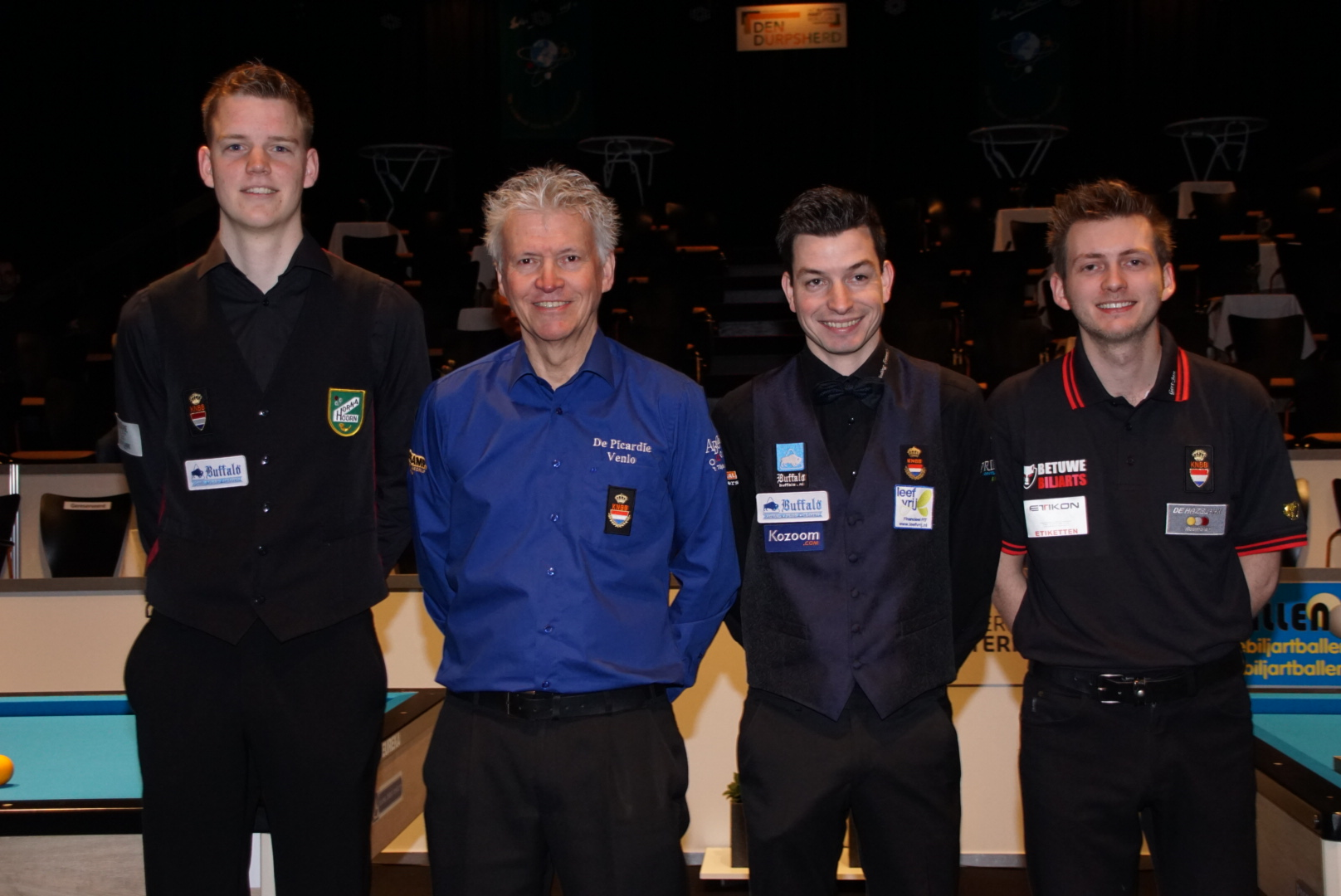 Players group B (from left): Sam van Etten, Jos Bongers, Raymund Swertz, Gert-Jan Veldhuizen